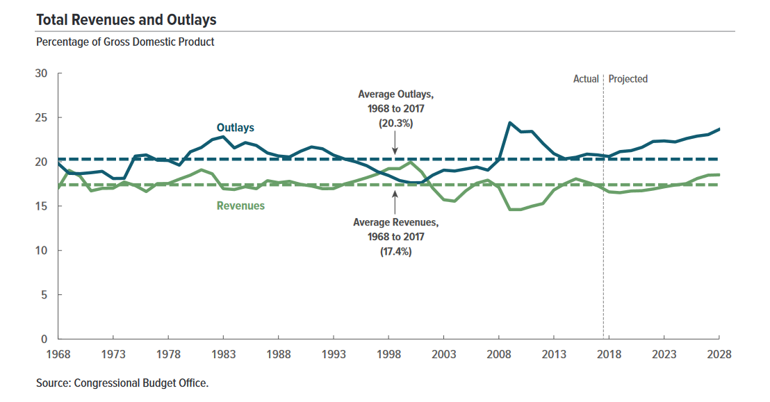 Total revenues and outlays as a percent of GDP, from "The Budget and Economic Outlook: 2018 to 2028"